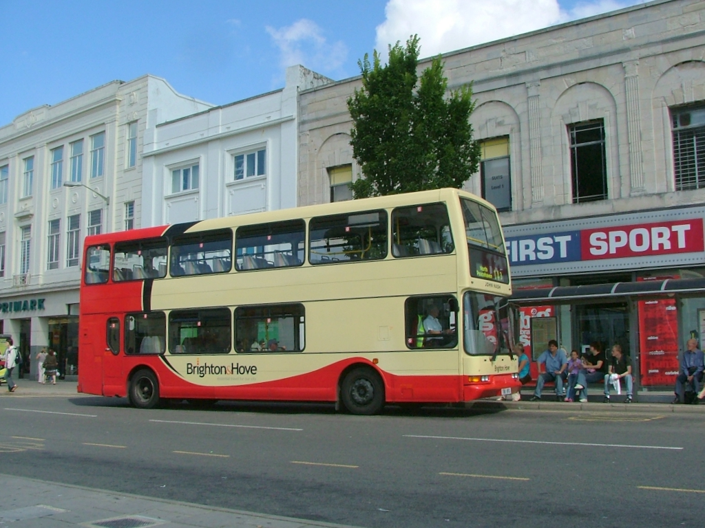 Brighton & Hove 811 John Nash (T811 RFG), a Dennis Trident/East Lancs Lolyne, at Brighton's Churchill square shopping centre.